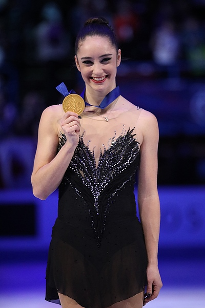 Photos – World Championships 2018 – Ladies (Medalists)